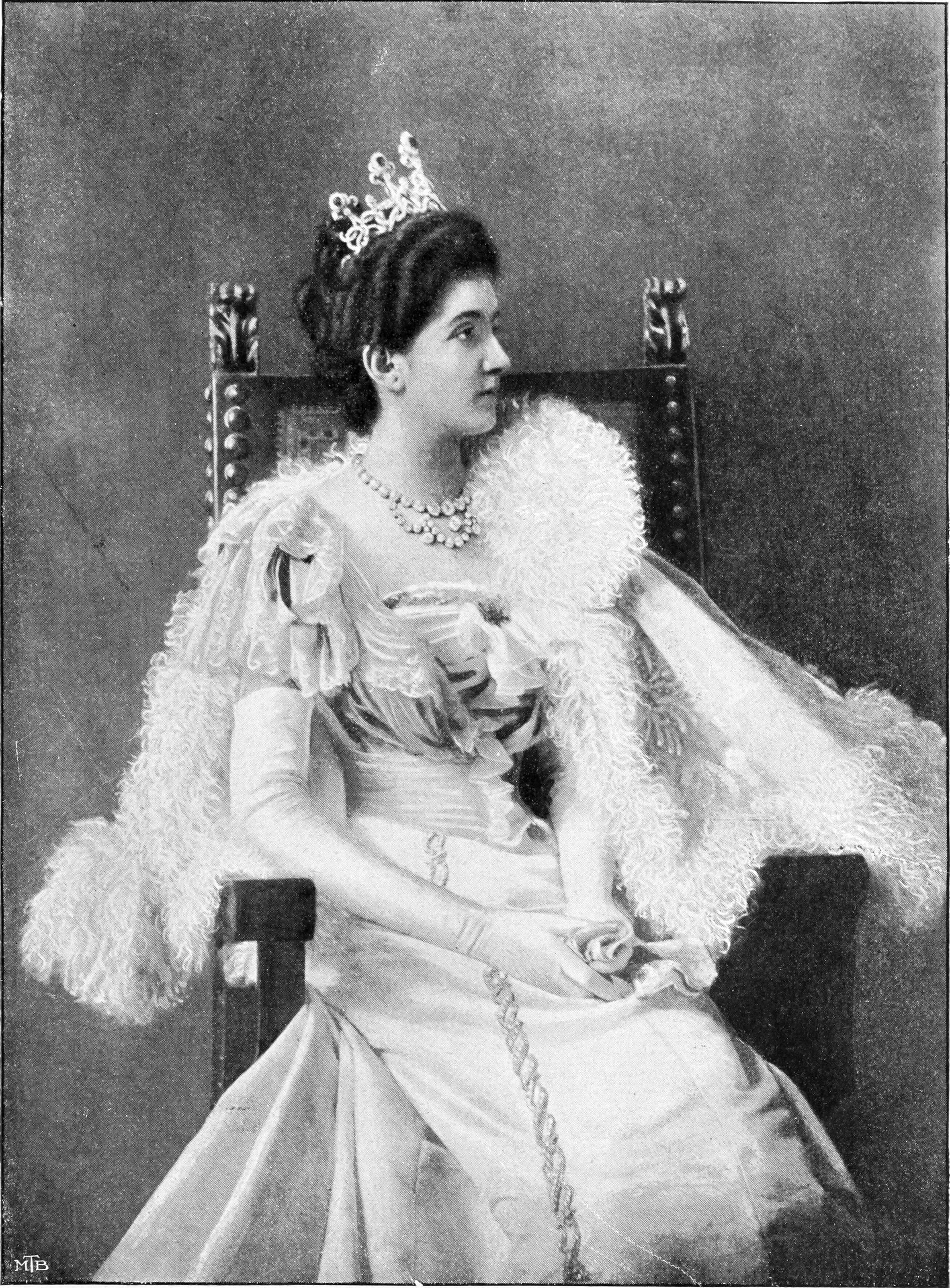 Portrait of Elena of Montenegro (1873-1952)